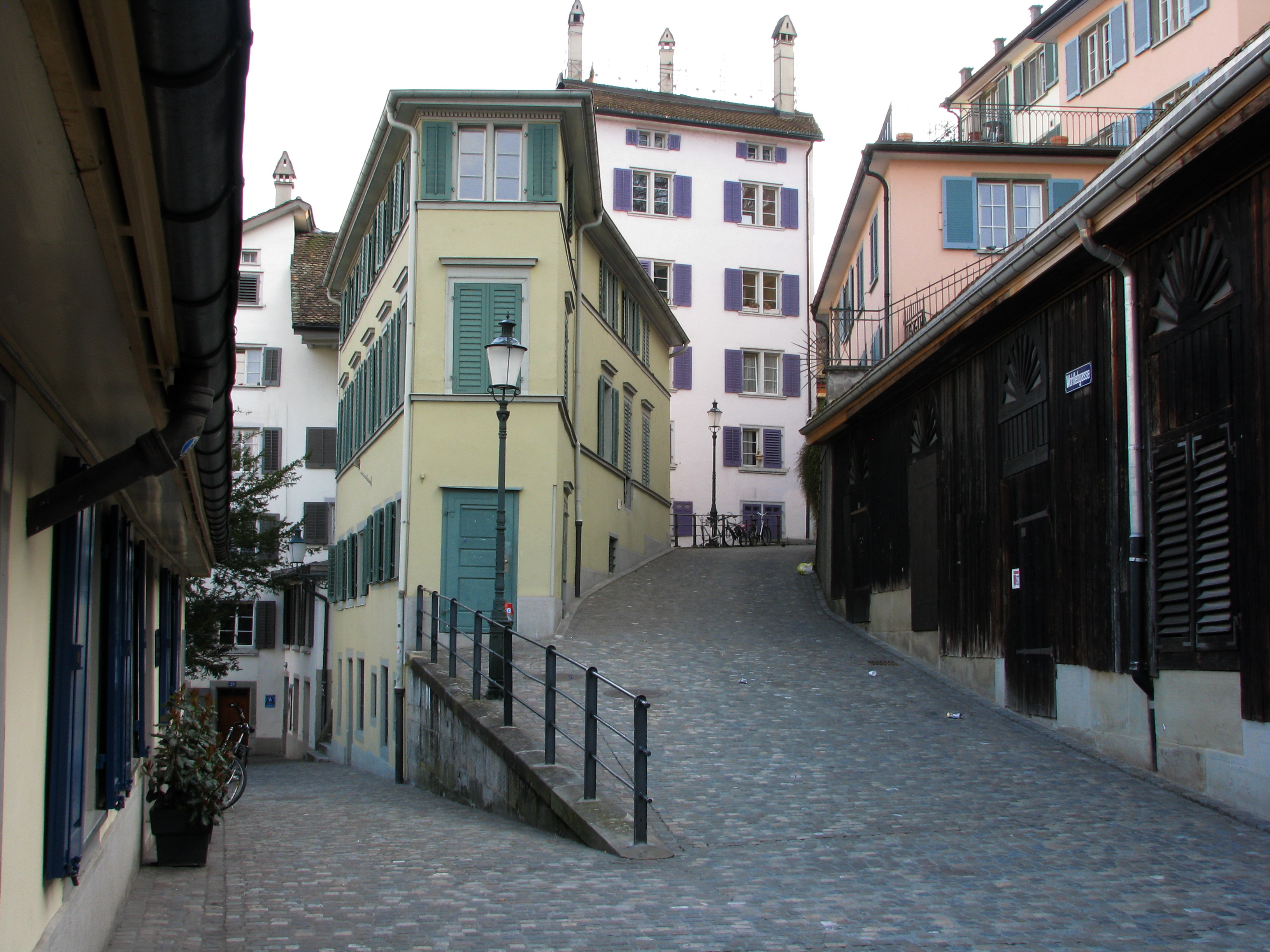 Zürich : Schipfe houses.